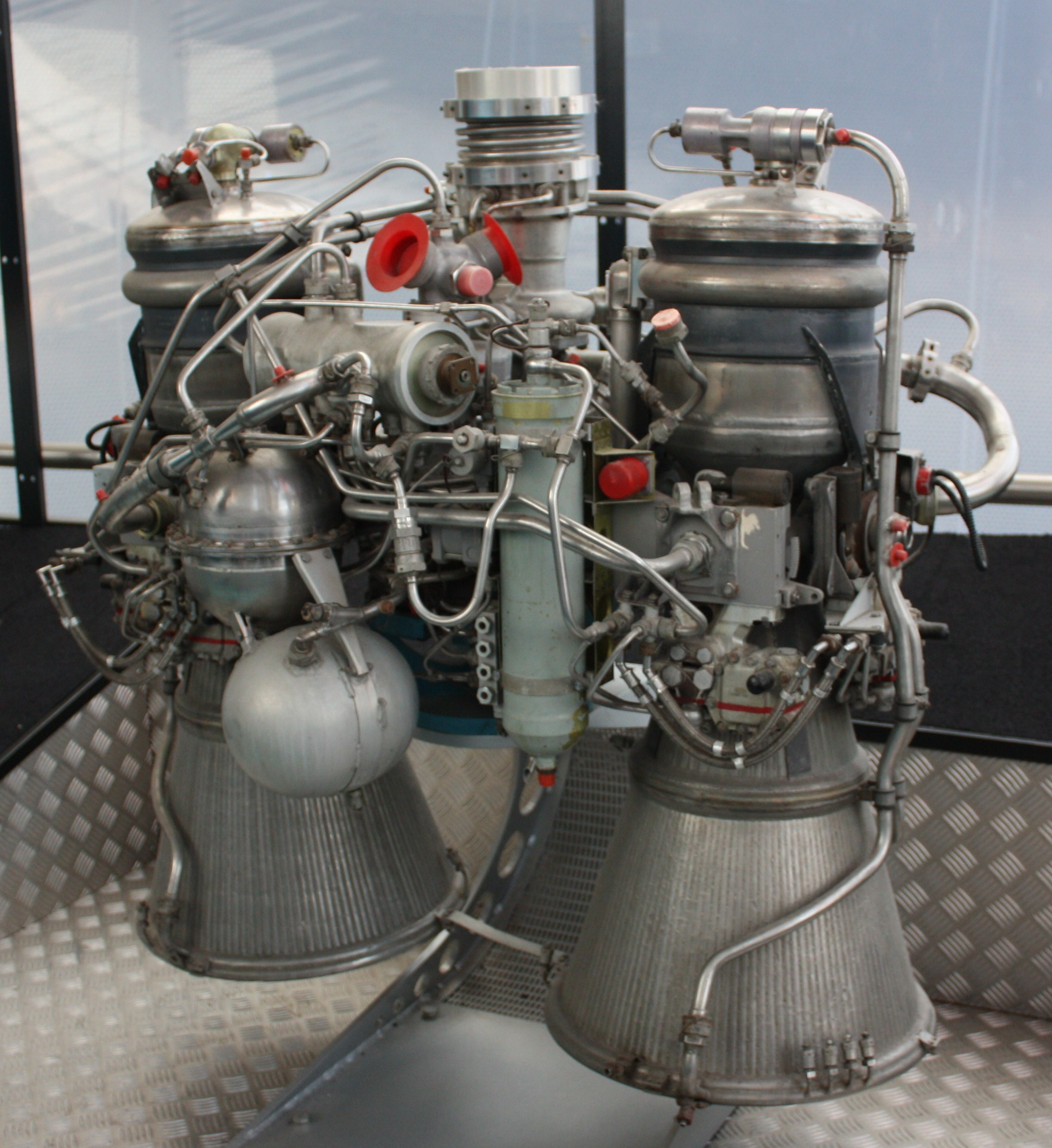 A Gamma 2 engine, as used on the second stage of the British BLACK ARROW rocket, at the National Space Centre, Leicester.